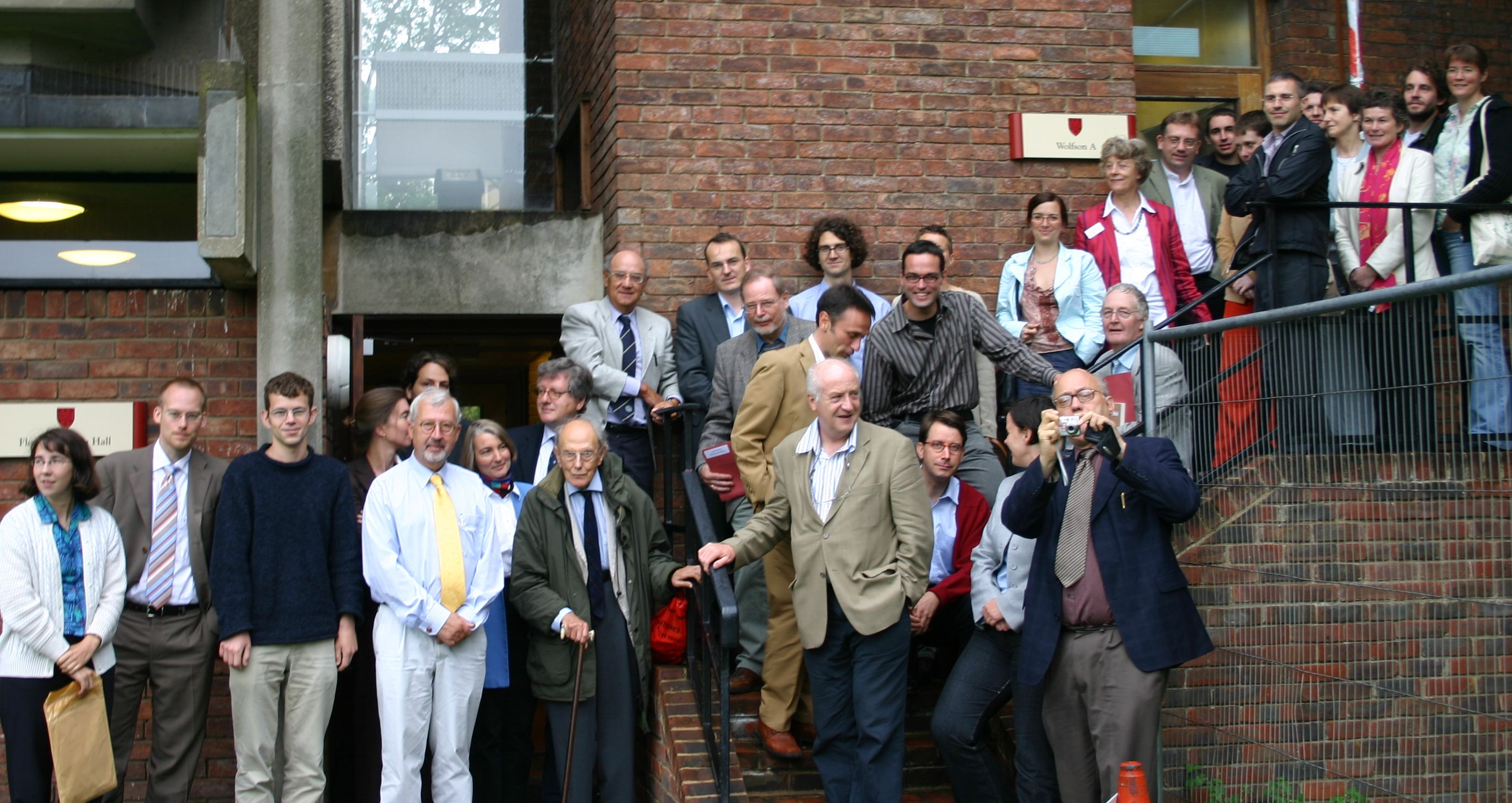 Peter Ganz, Professor of Medieval German Language and Literature, during his last public appearance at the Anglo-German Colloquium 2005 in Somerville College, Oxford